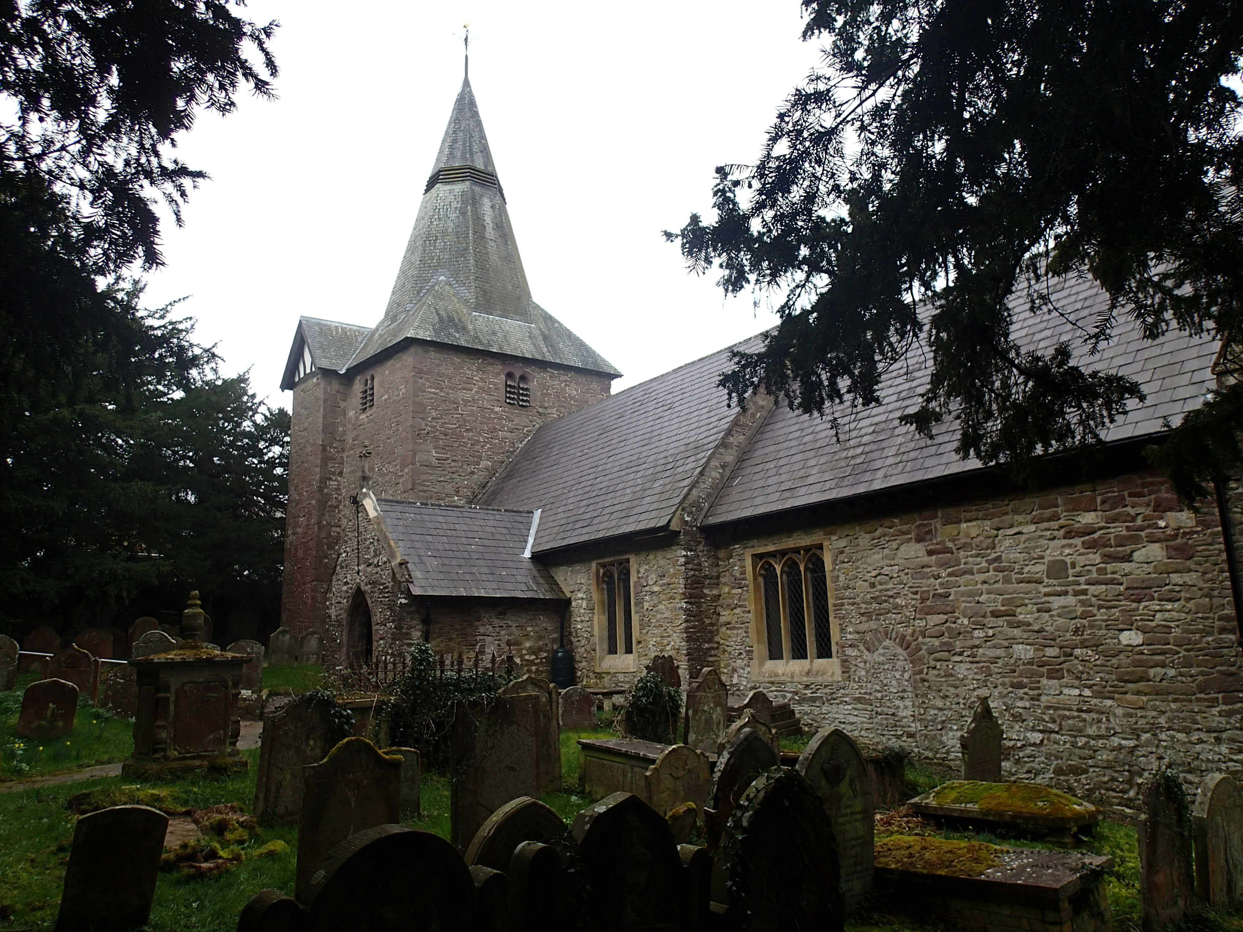 St Elli's Church at Llanelly village, Llanelly. A Grade II* listed building.